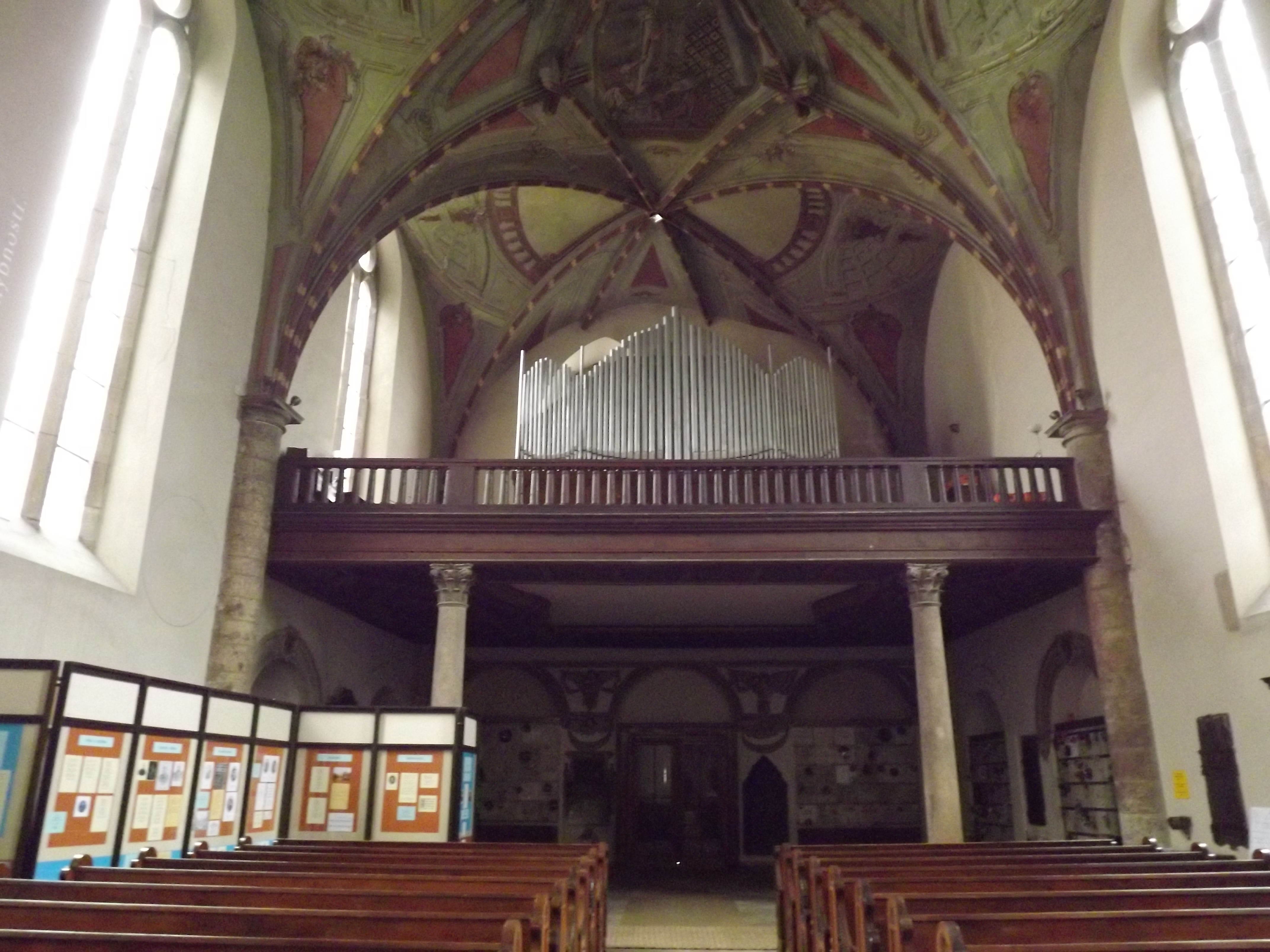 The interior of St. Wenceslas' Church at Zderaz